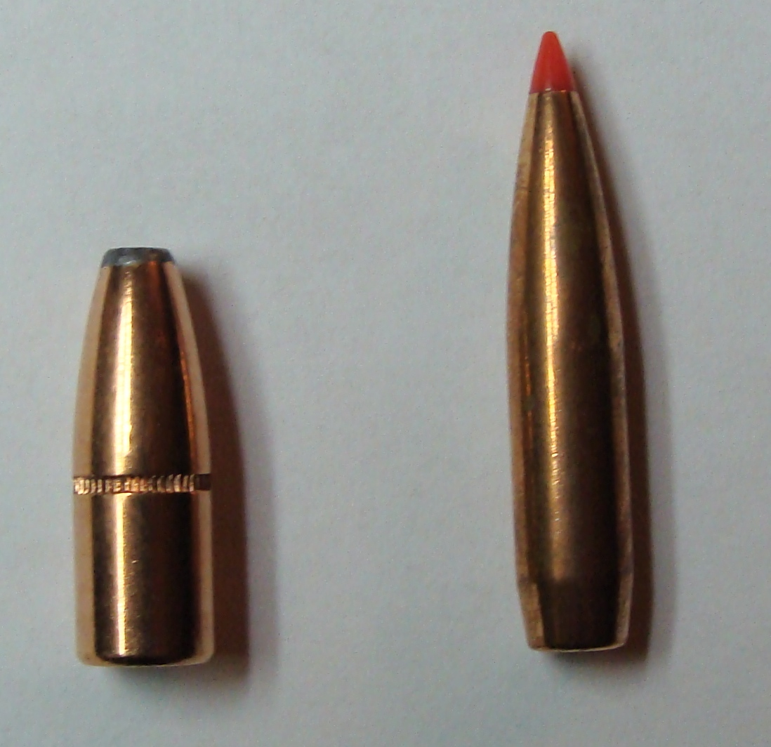 The bullet on the left is blunt tipped, and has a low ballistic coefficient (BC). The bullet on the right is more aerodynamic and has a higher BC.